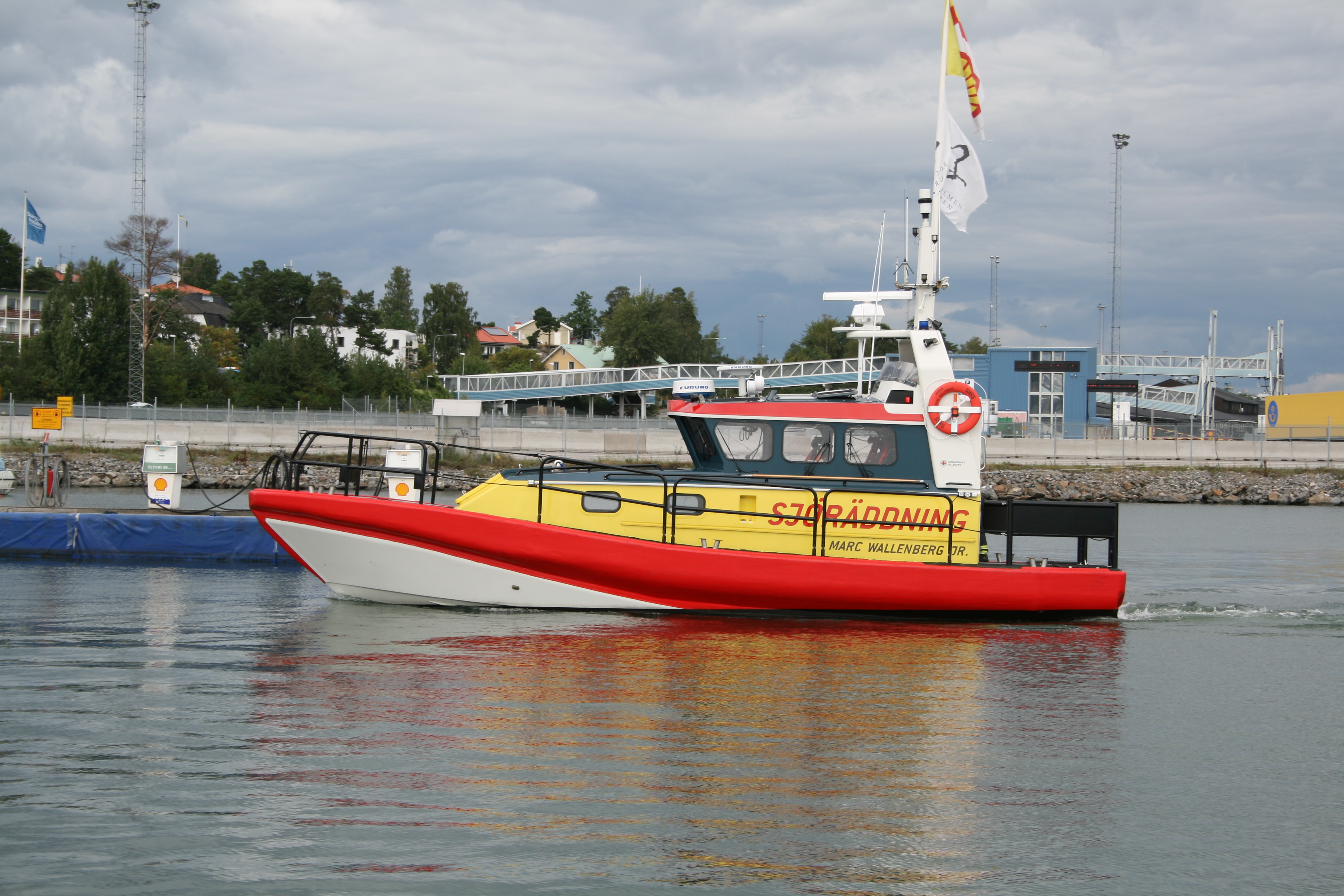 Nynäshamn:s (sweden) sea rescue boat Rescue Marc Wallenberg Jr arrives port